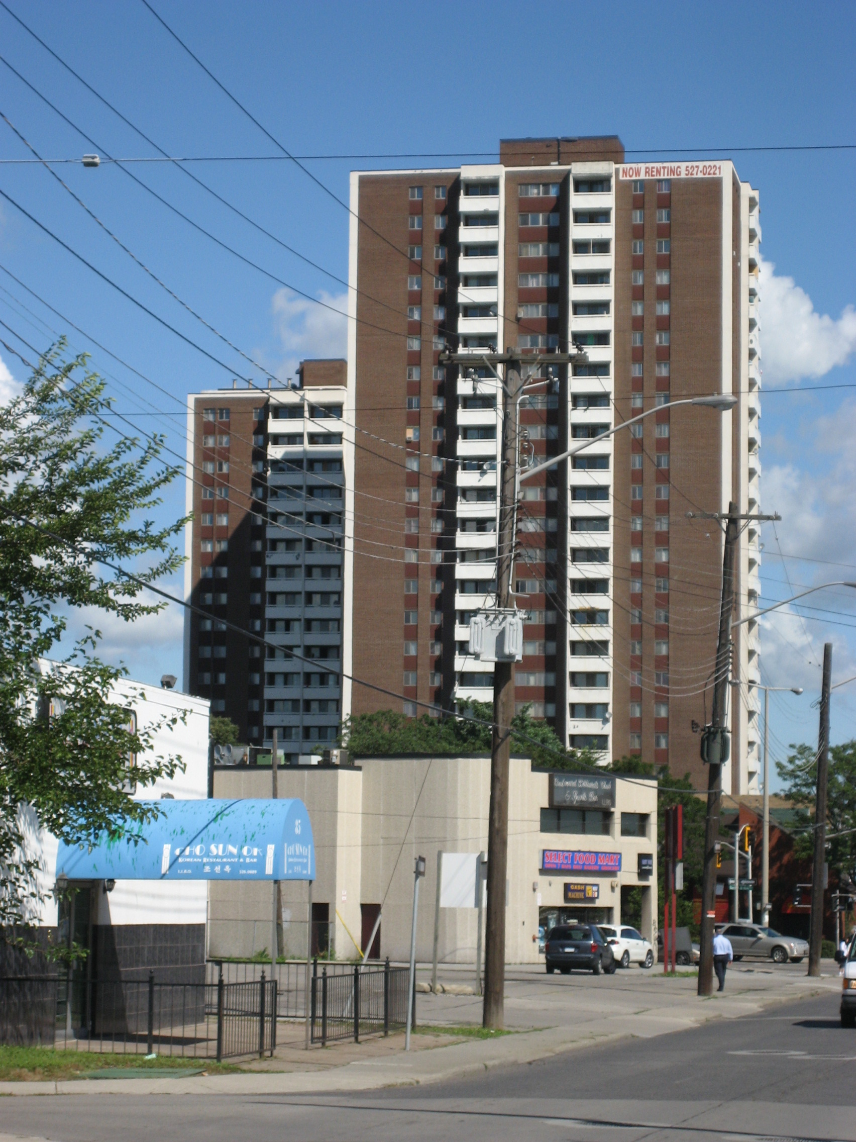 Queen's Terrace/ Oxford Heights, apartments, Hamilton, Canada.